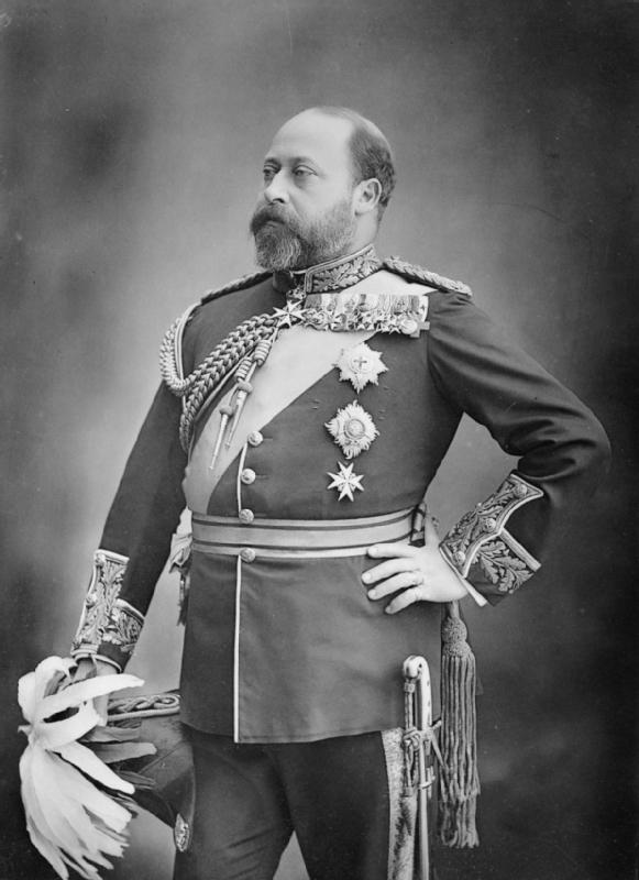 Britain Before the First World War Portrait of the Prince of Wales, later King Edward VII, wearing full dress uniform in 1889.